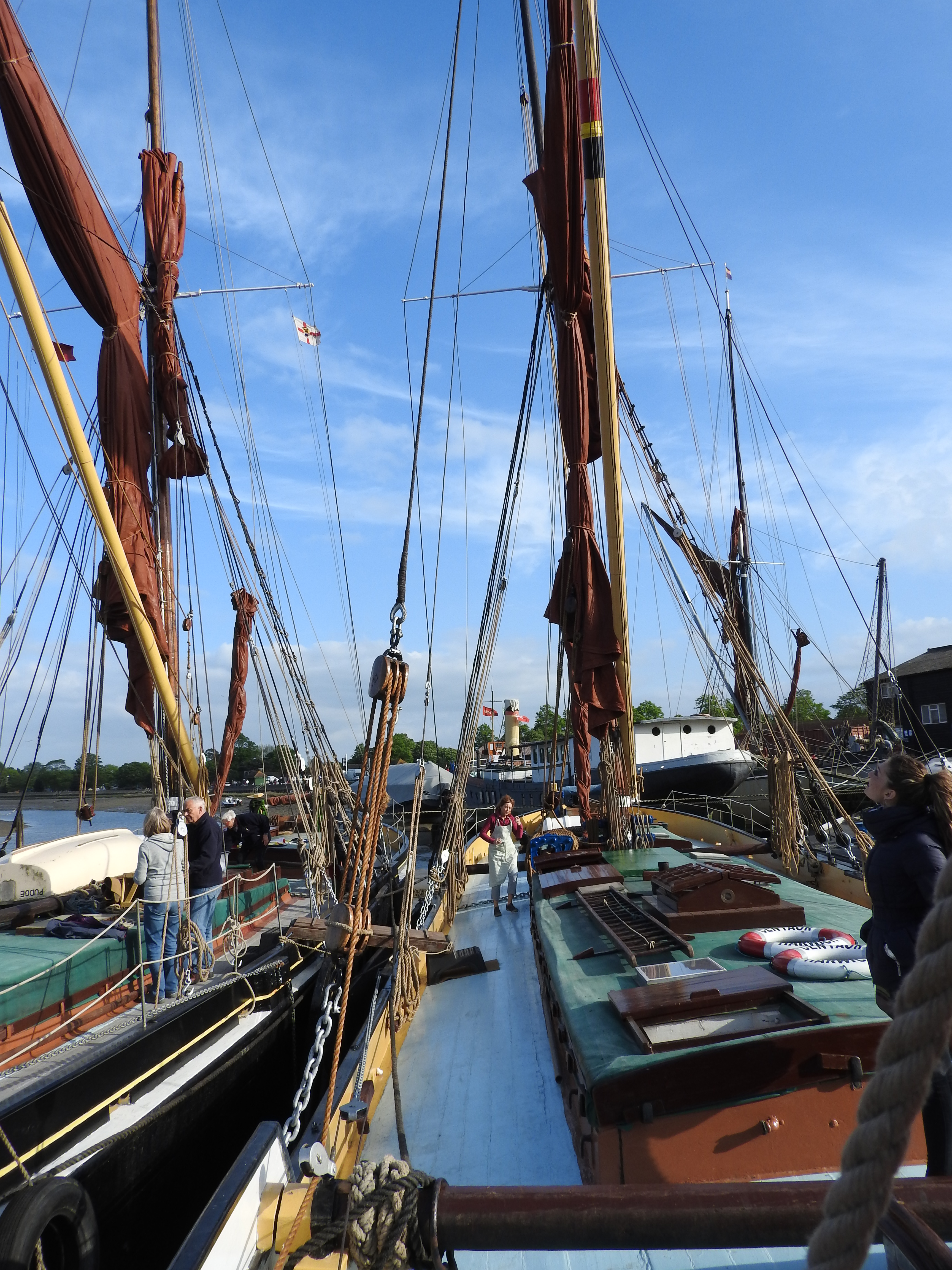 SB Centaur (1895). Thames Sailng Barge Trust- Pudge (1922) and Centaur (1895), and the lighter Sailorman (1931) are moored at Hythe Quay, Maldon.